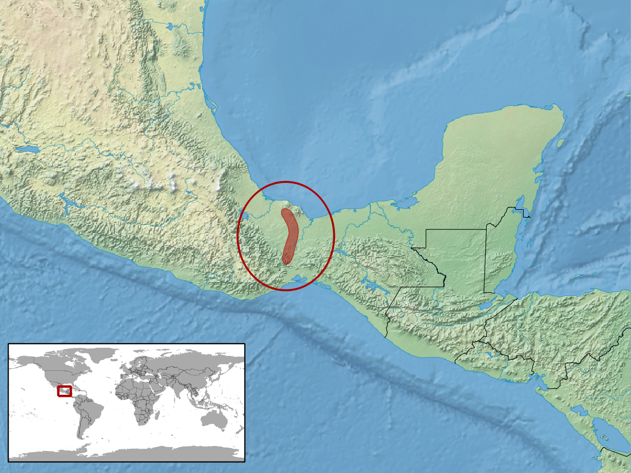 geographic distribution of Ficimia variegata (Native: Mexico)